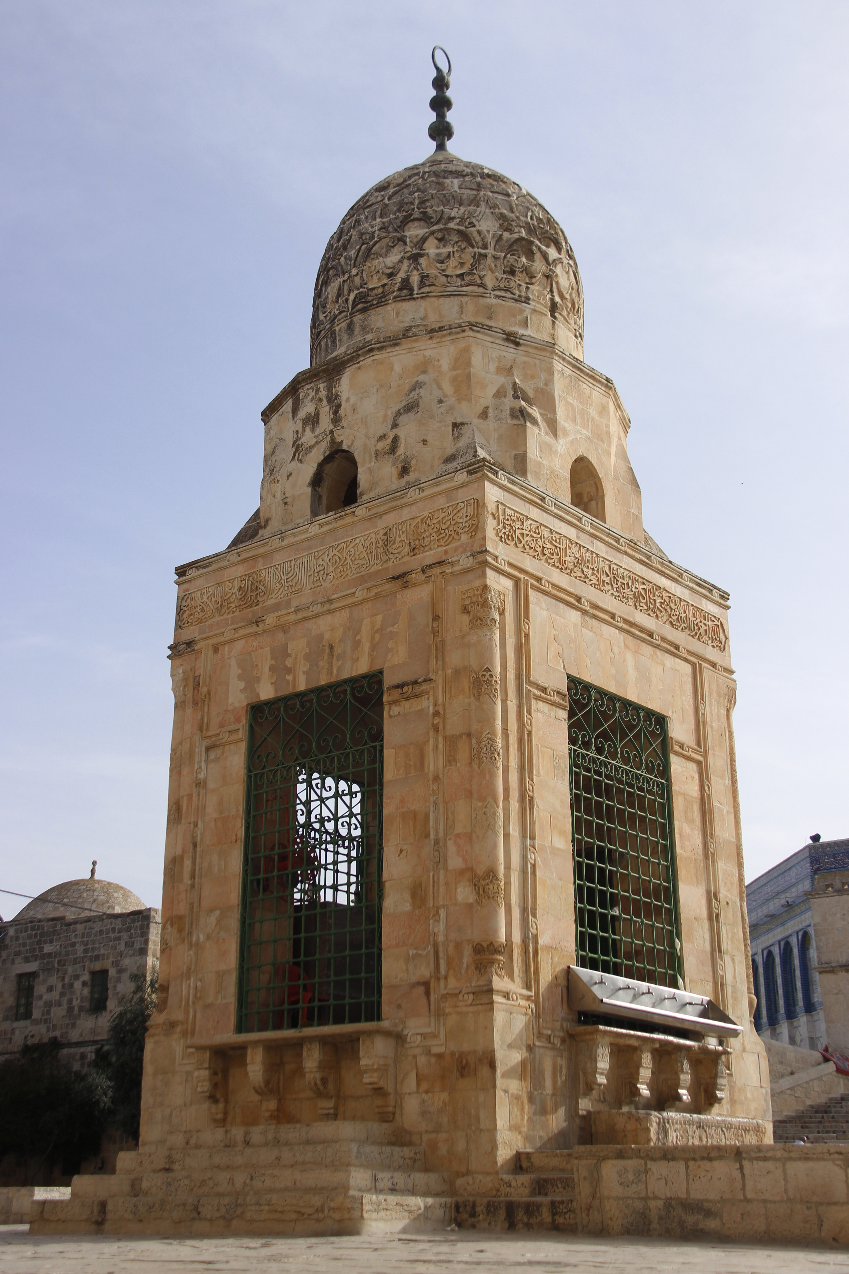 Sebil of Qaitbay, Al-Aqsa Mosque.